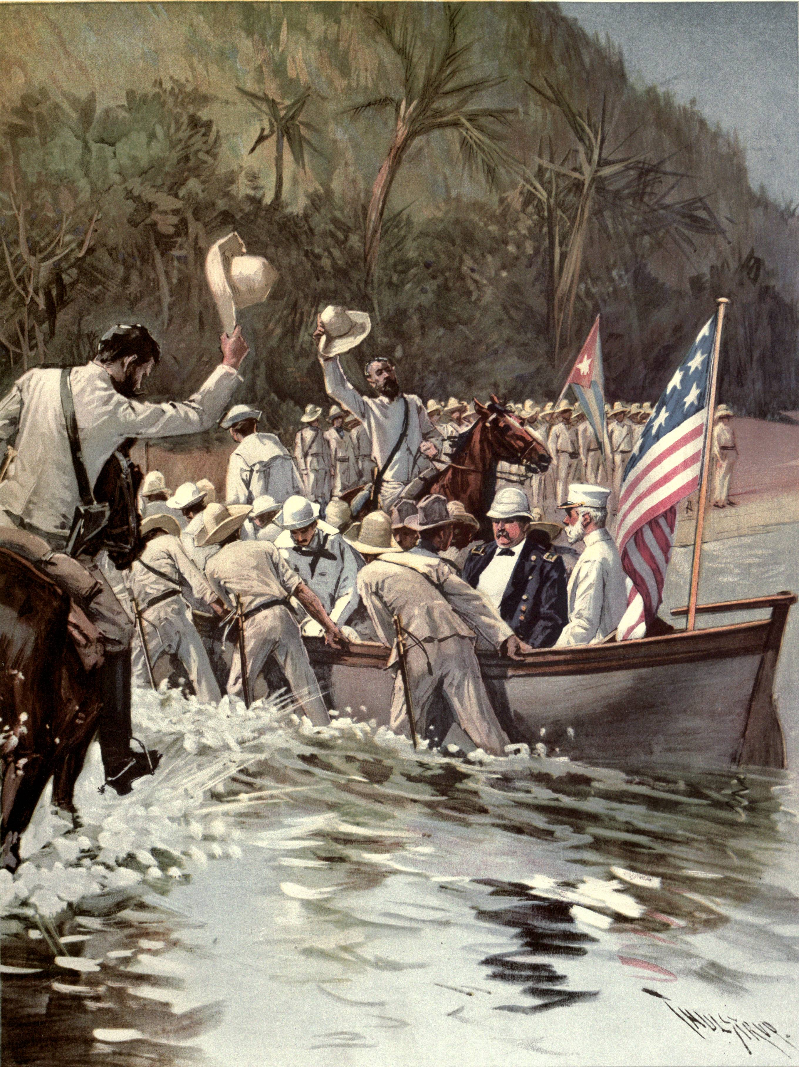 General William R. Shafter (in pith helmet) and Admiral William T. Sampson landing on the beach at Aserradero, June 20, to confer with General Calixto Garcia. From p. 312 of Harper's Pictorial History of the War with Spain, Vol. II, published by Harper and Brothers in 1899.